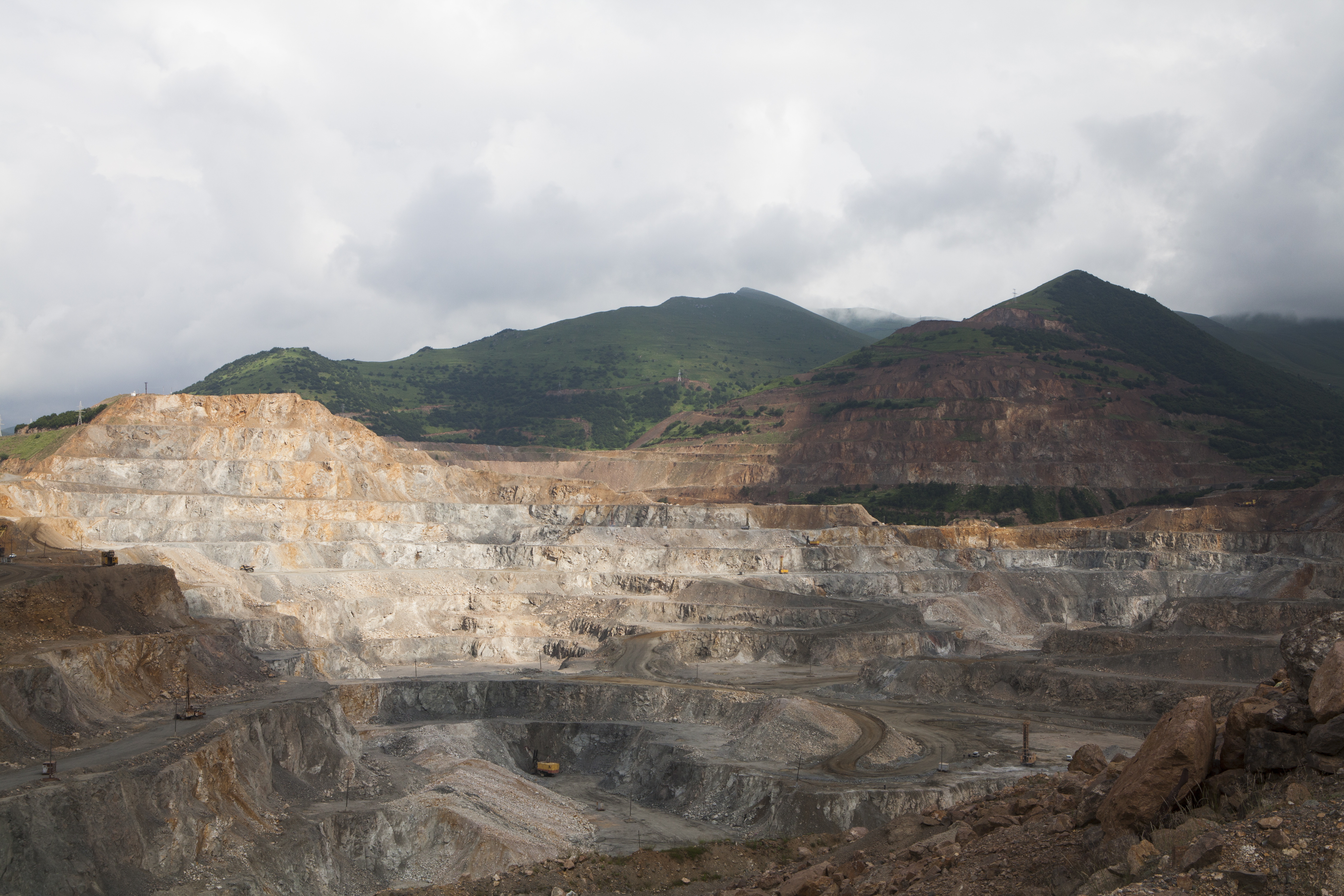 General view of of Armenia's largest mining operation, the Kajaran Mine operated by the Zangezur Copper and Molybdenum Combine in the town of Kajaran in the southern province of Syunik.